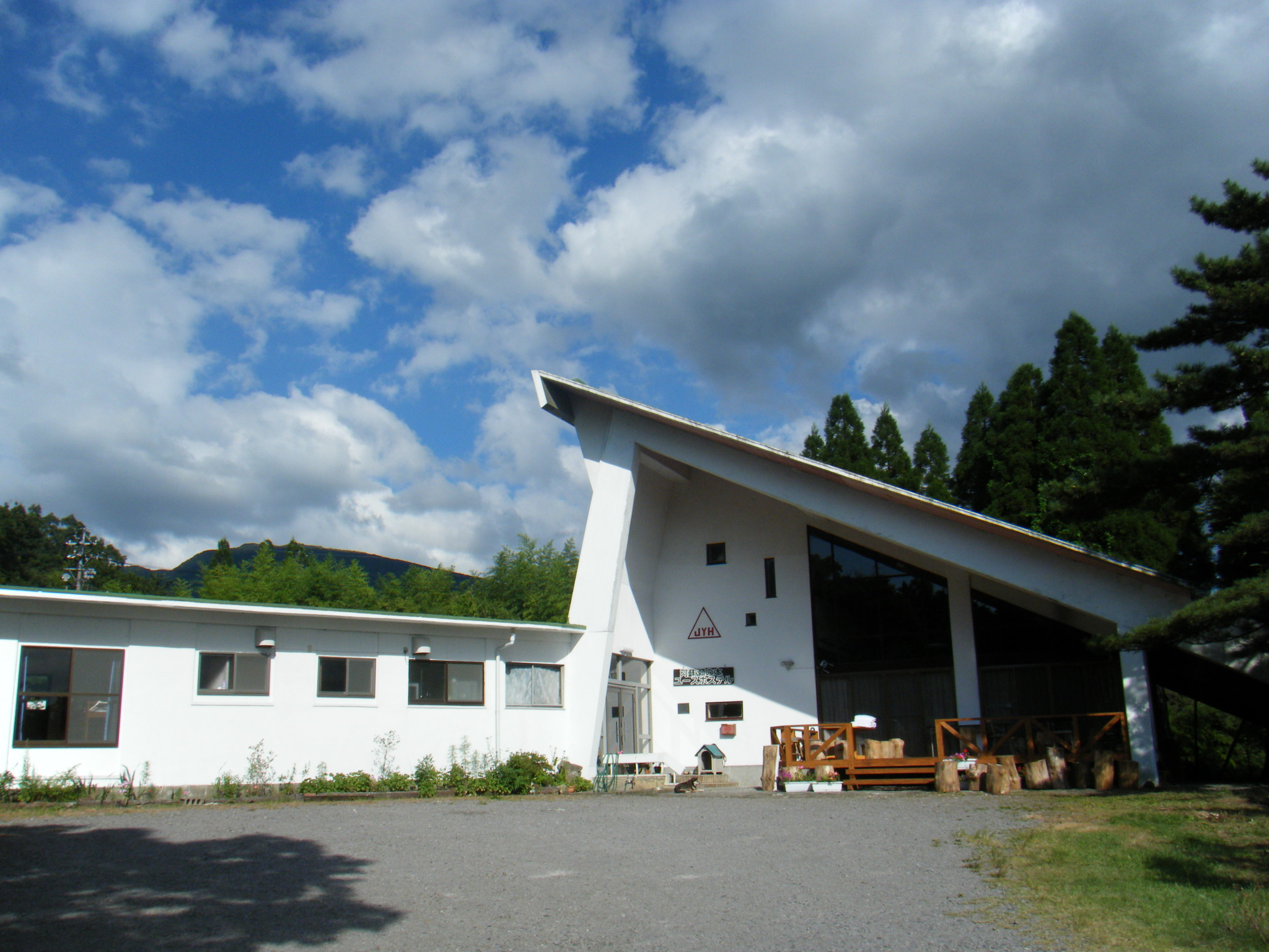 Aso-Kuju-kogen-YH